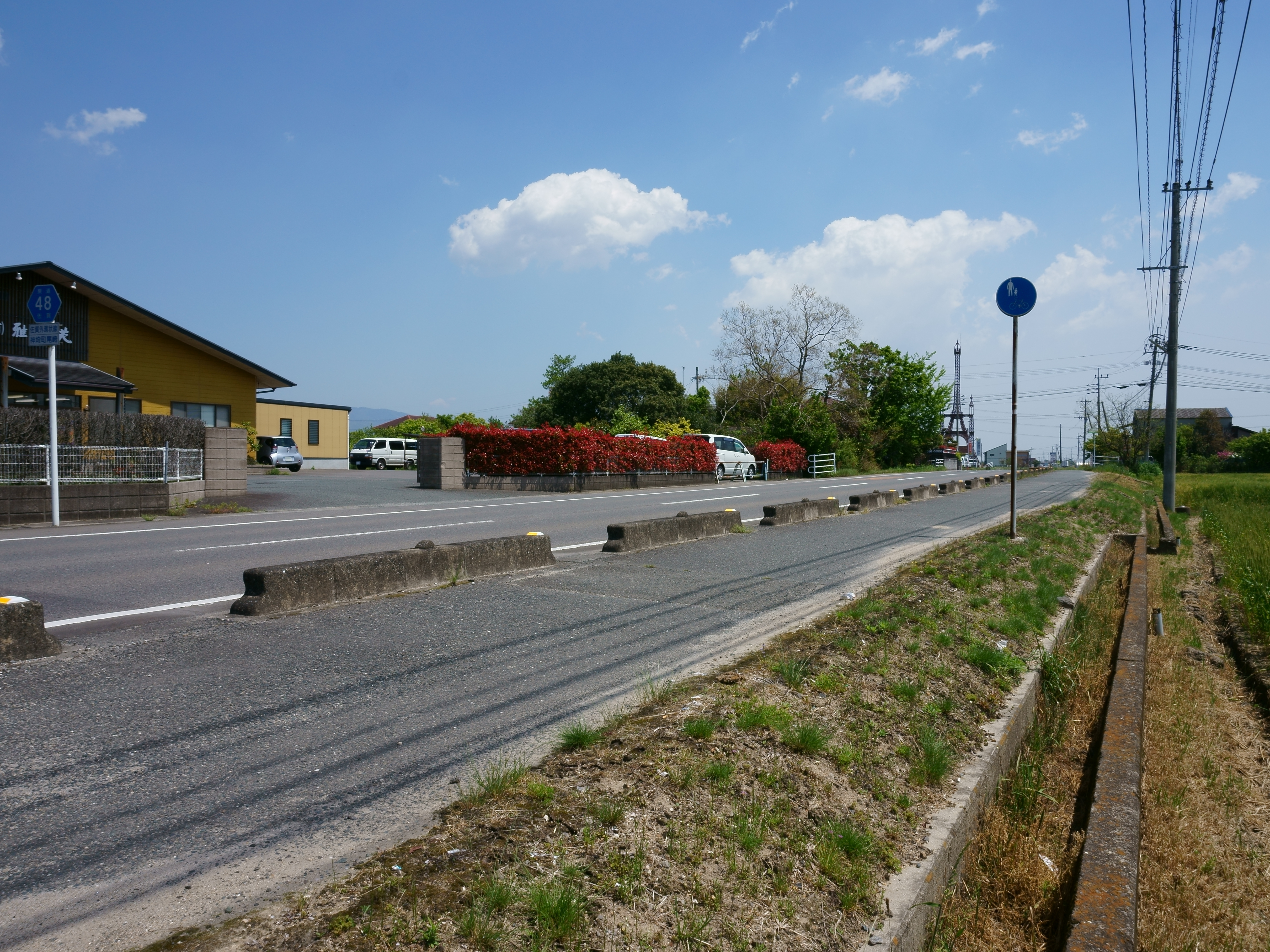 Saga prefectural road No.48 "Saga outer loop line" and a tower in Ozaki, Kanzaki city, Saga prefecture.